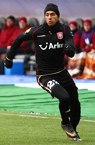 FC Twente in UEFA Europa League round of 32 match against FC Rubin Kazan